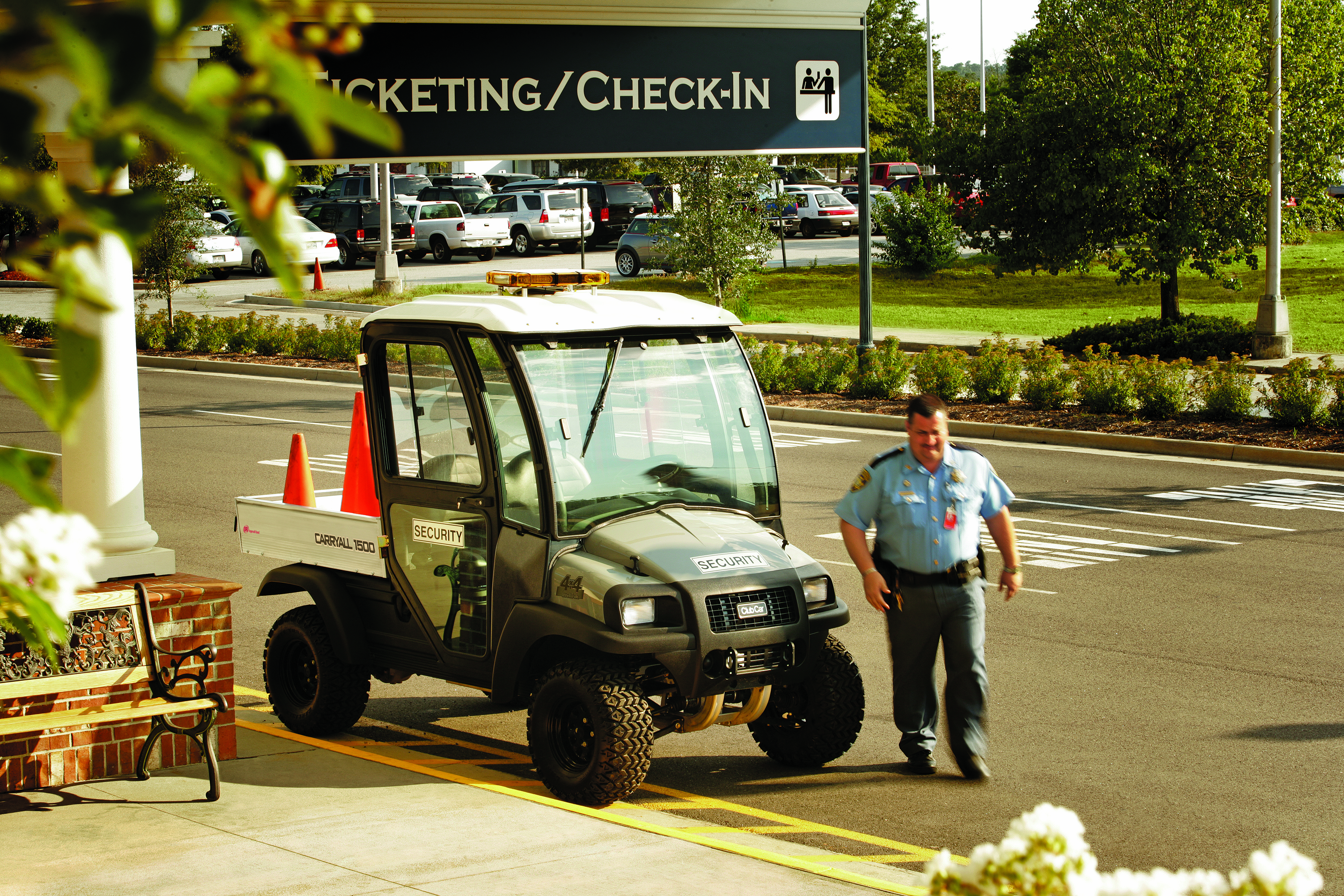 Carryall 1500 4x4 Commercial Utility Vehicle (UTV) from Club Car. Used with permission from Club Car.